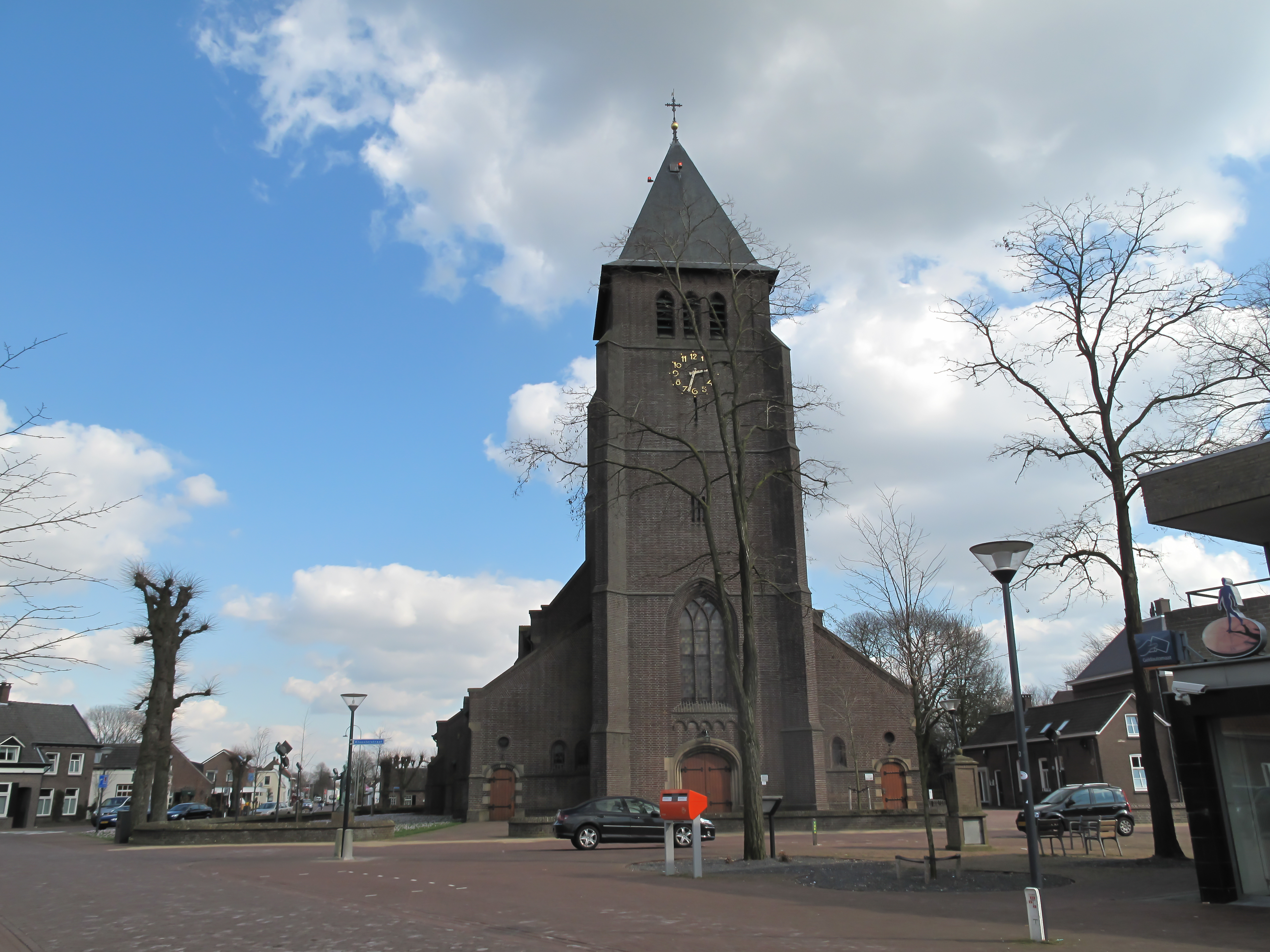 Volkel , church: kerk van de Heilige Antonius Abt